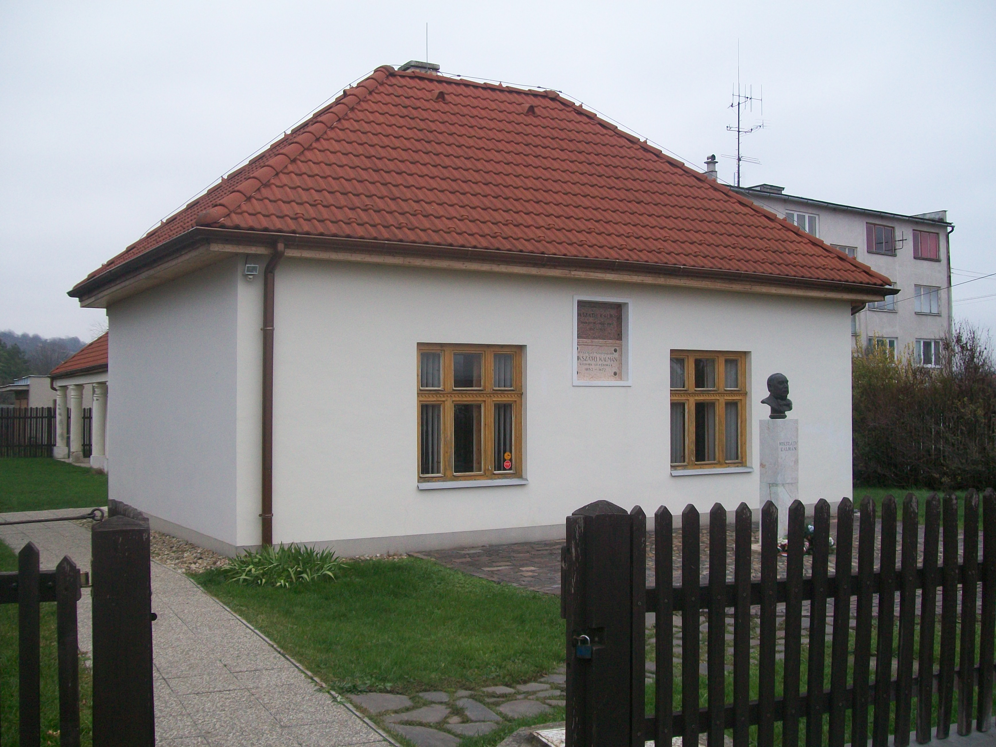 Memorial house of writer Kálmán Mikszáth (here was his birthplace)